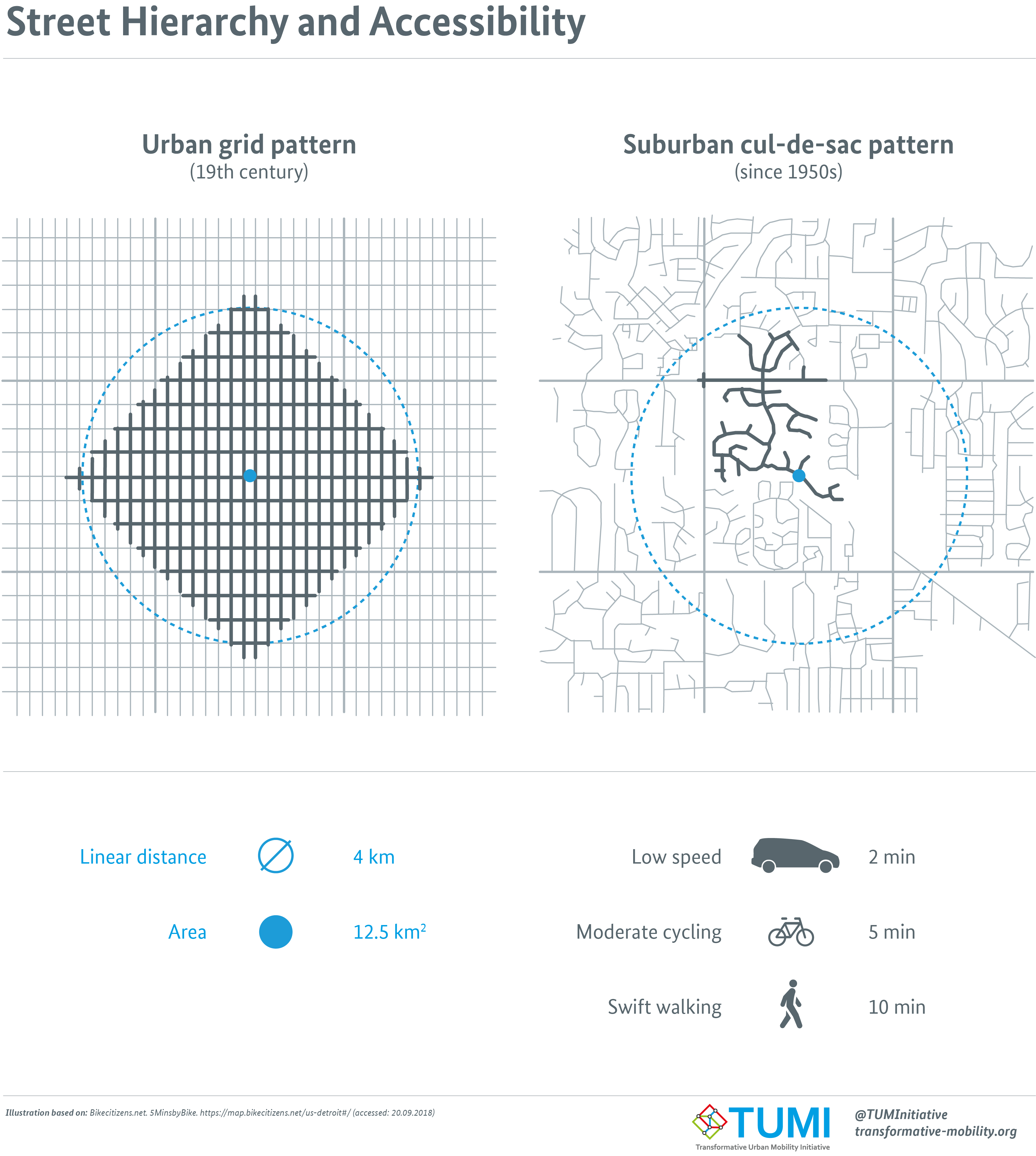 Street Hierarchy and Accessibility Distance accessible (dark grey) by 2 min low speed car ride, or 5 min moderate cycling, or 10 min swift walking. Differences in street design, street network, urban grid pattern, suburban cul-de-sac pattern, connectivity Transformative Urban Mobility Initiative (TUMI)